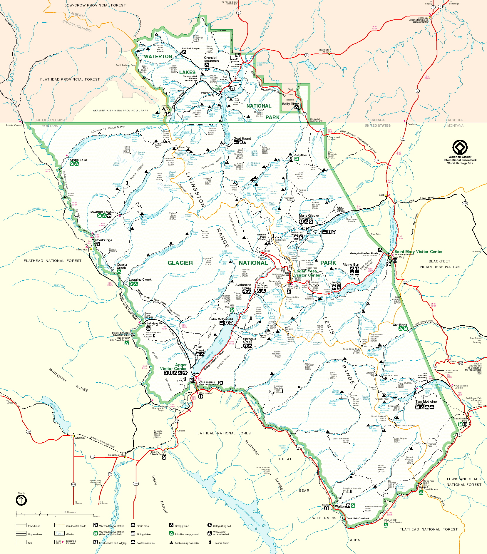 Map of Glacier National Park, Montana, USA and Waterton Lakes National Park, Alberta, Canada